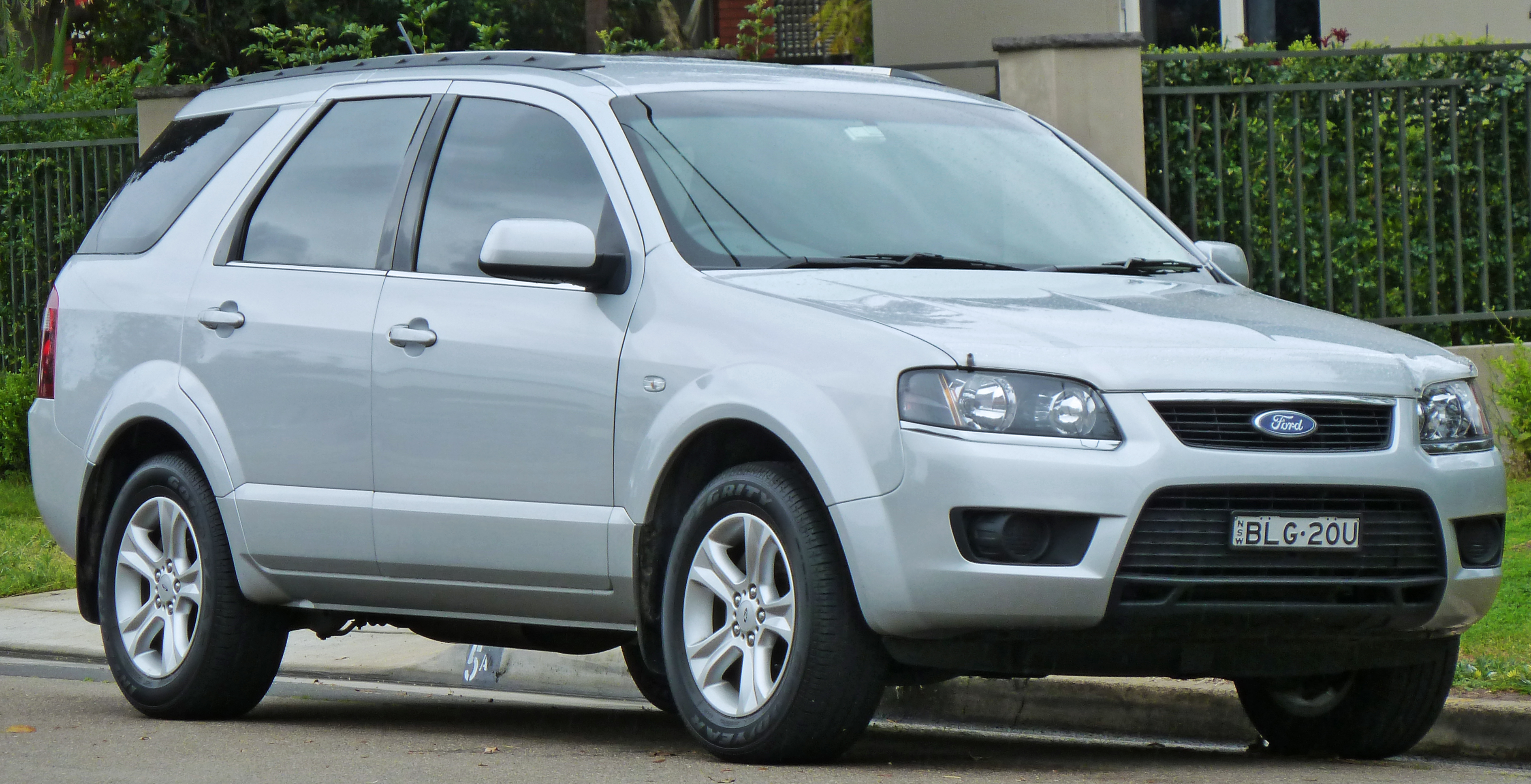 2009–2010 Ford Territory (SY II) TX wagon. Photographed in Sans Souci, New South Wales, Australia.